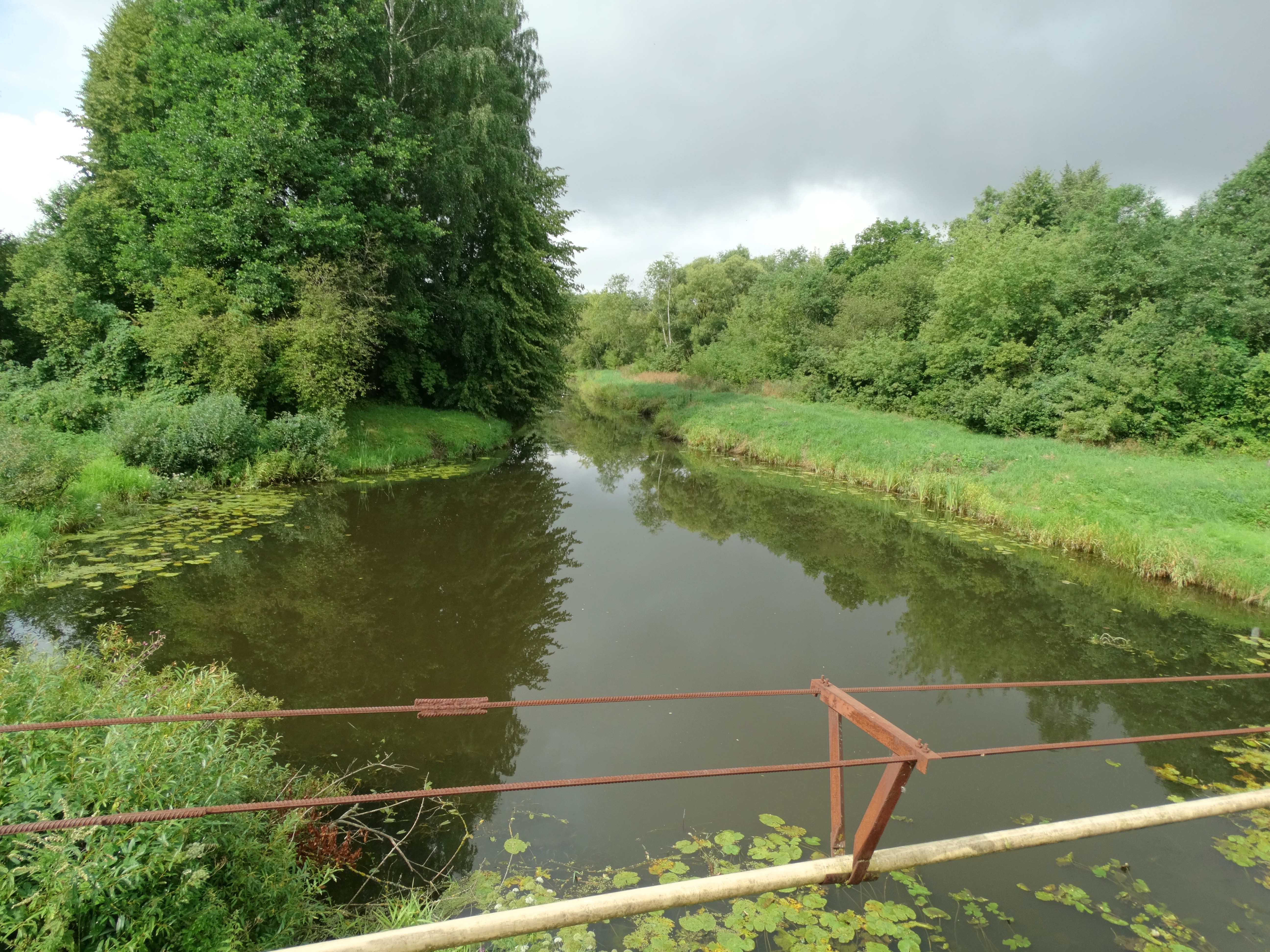 Dabikinė river, Akmenė district, Lithuania